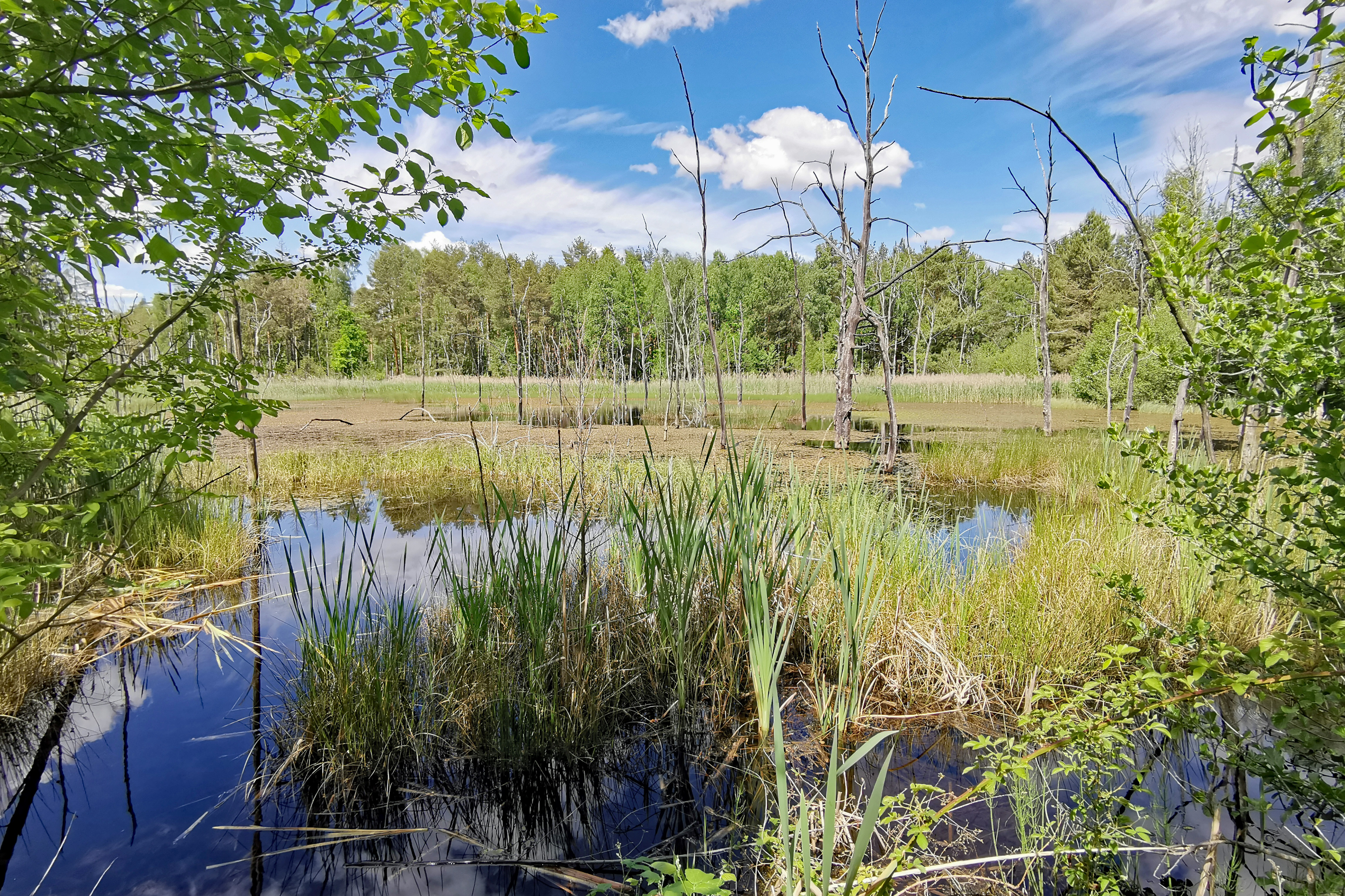 Glauschnitz (Laußnitz, Saxony, Germany)